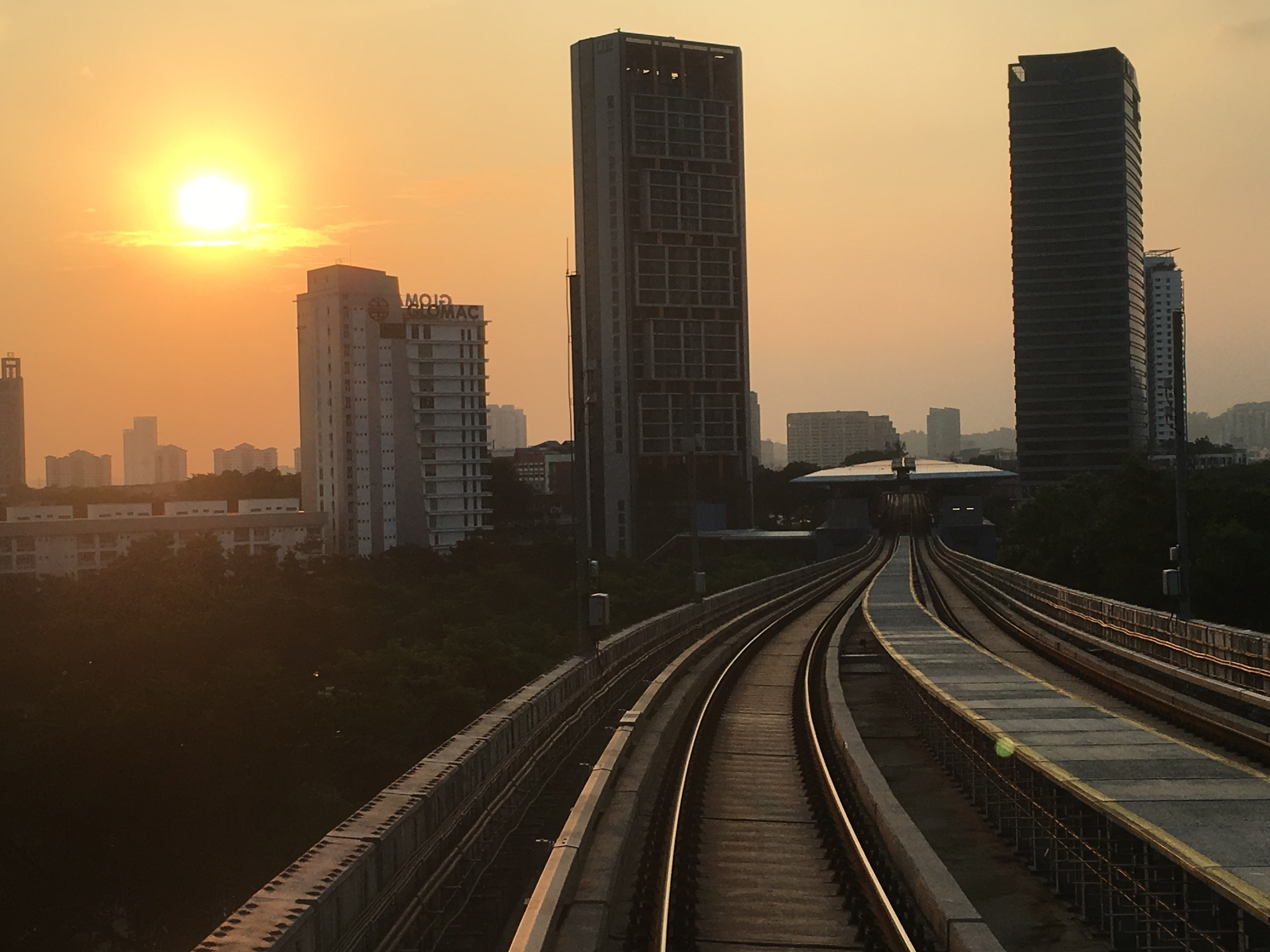 Evening view of the Taman Tun Dr Ismail MRT Station from a north-bound train.